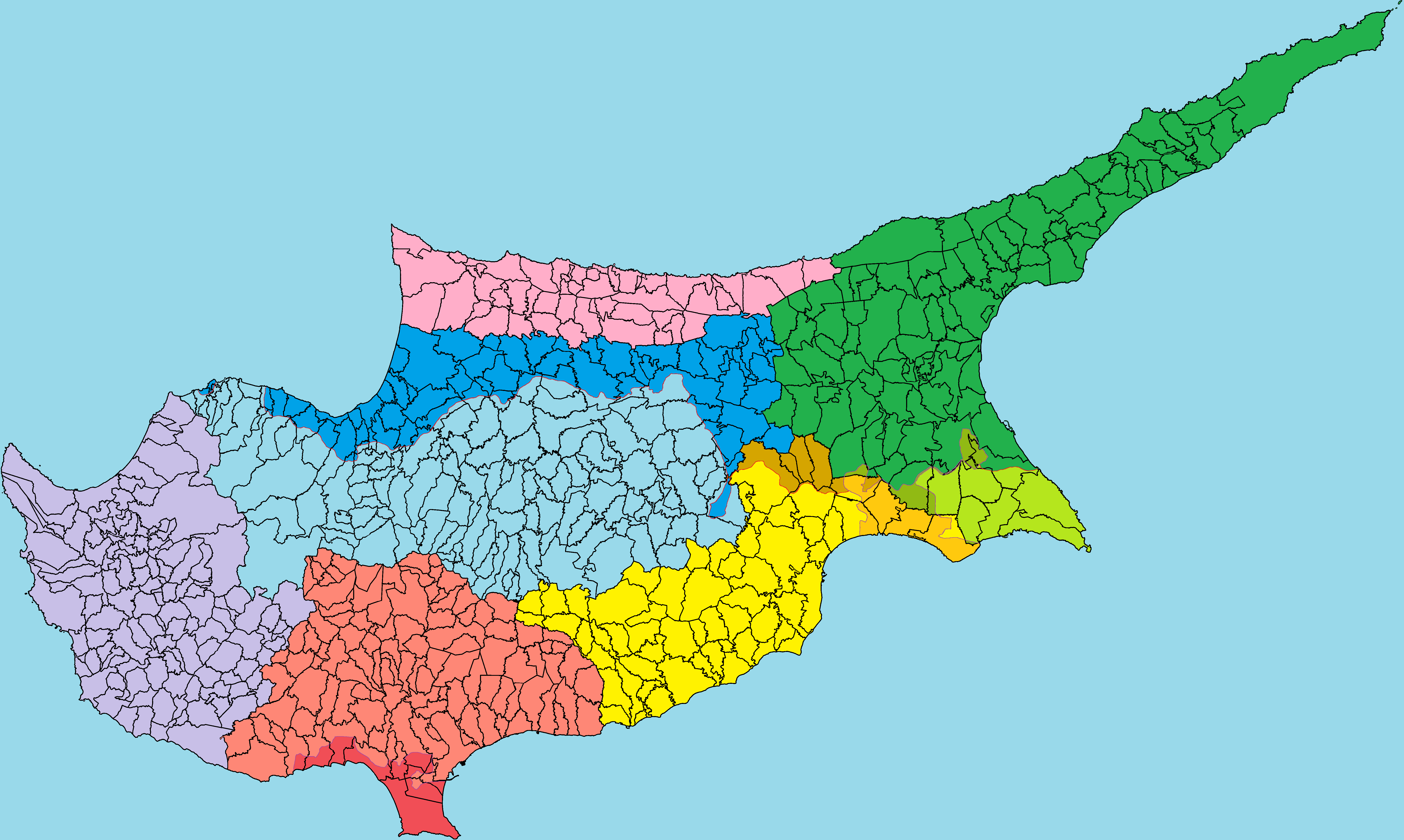 Administrative territorial entity of Cyprus Republict (de jure).